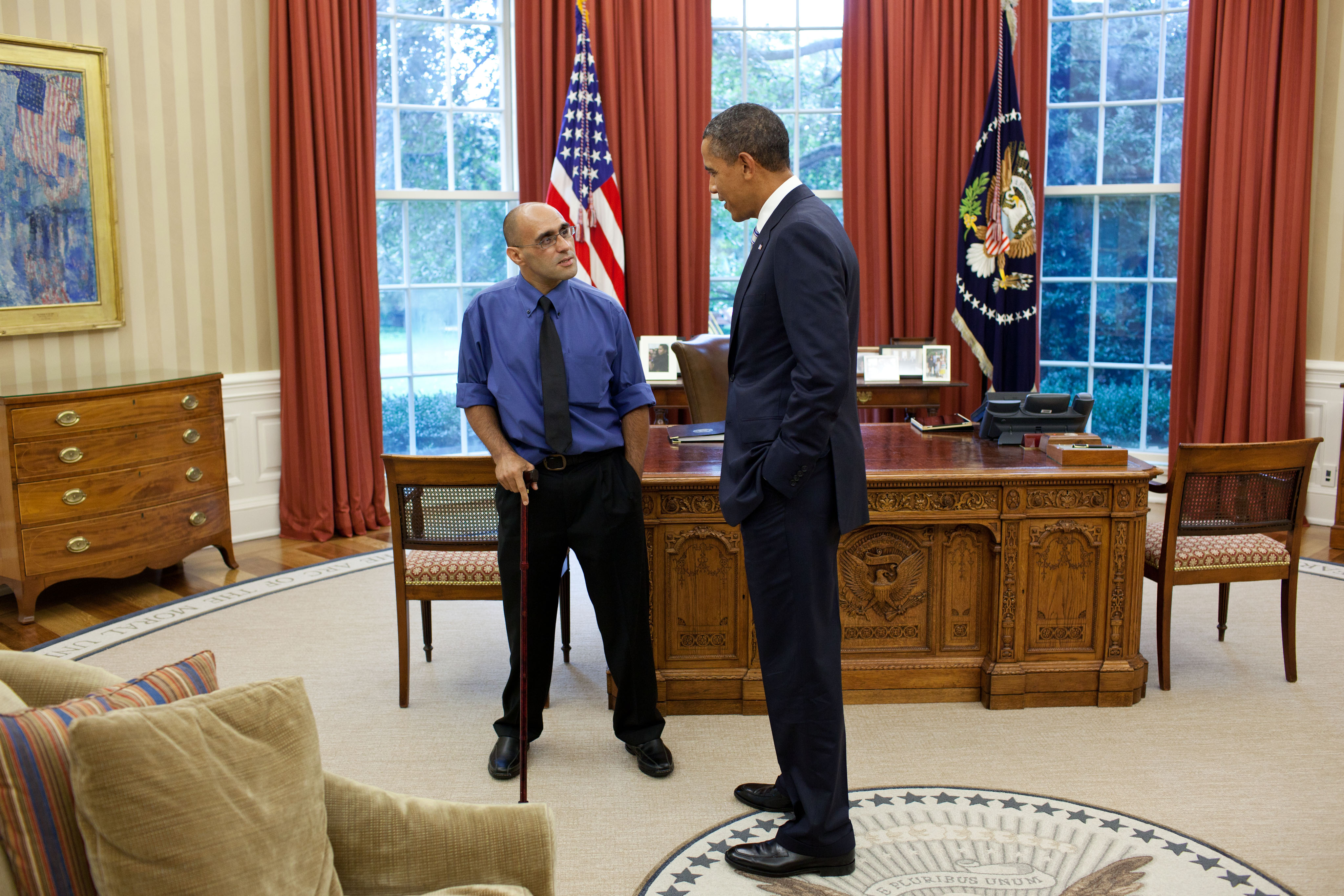 President Barack Obama talks with New York Times photojournalist Joao Silva in the Oval Office, Sept. 15, 2011. Silva lost both his legs when he stepped on a mine while accompanying U.S. soldiers on patrol near the town of Arghandab, in southern Afghanistan, Oct. 23, 2010, and was at the White House on assignment to photograph Dakota Meyer receiving the Medal of Honor. (Official White House Photo by Pete Souza)